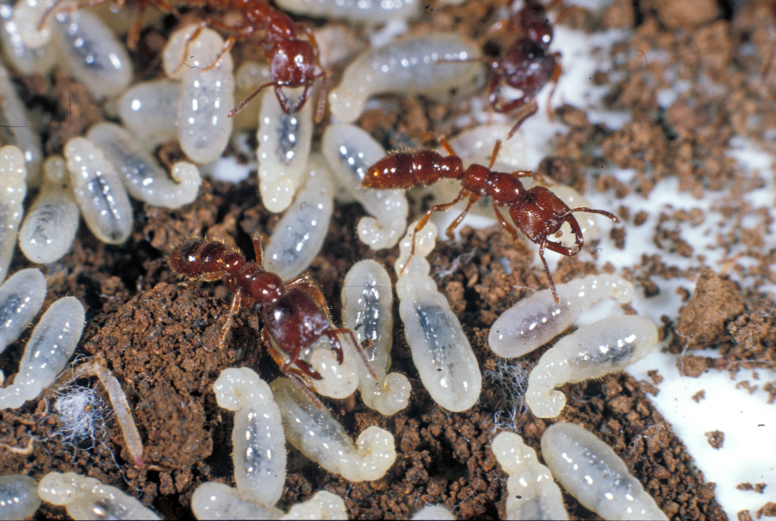 The ant species Onychomyrmex with larvae.